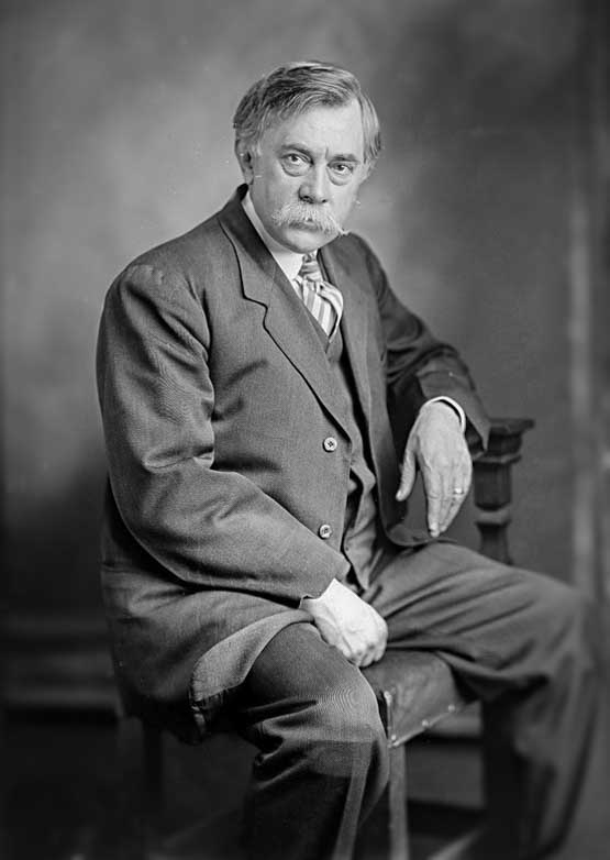 A wet plate image of Rufus W. Holsinger